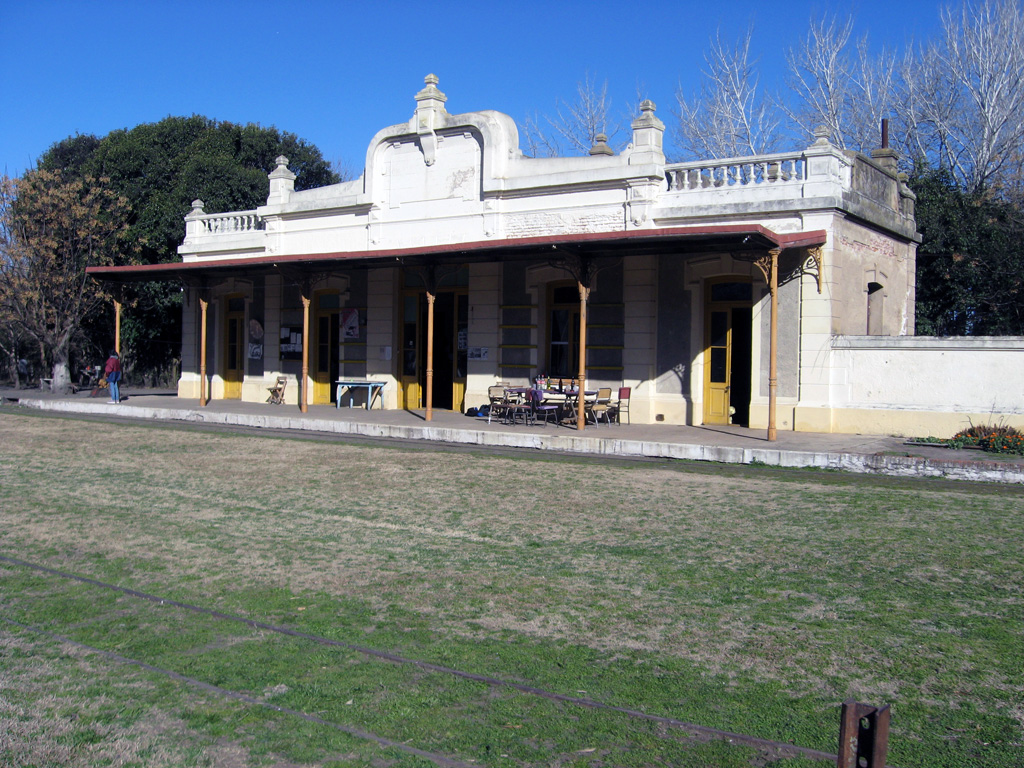 Espora Train Station